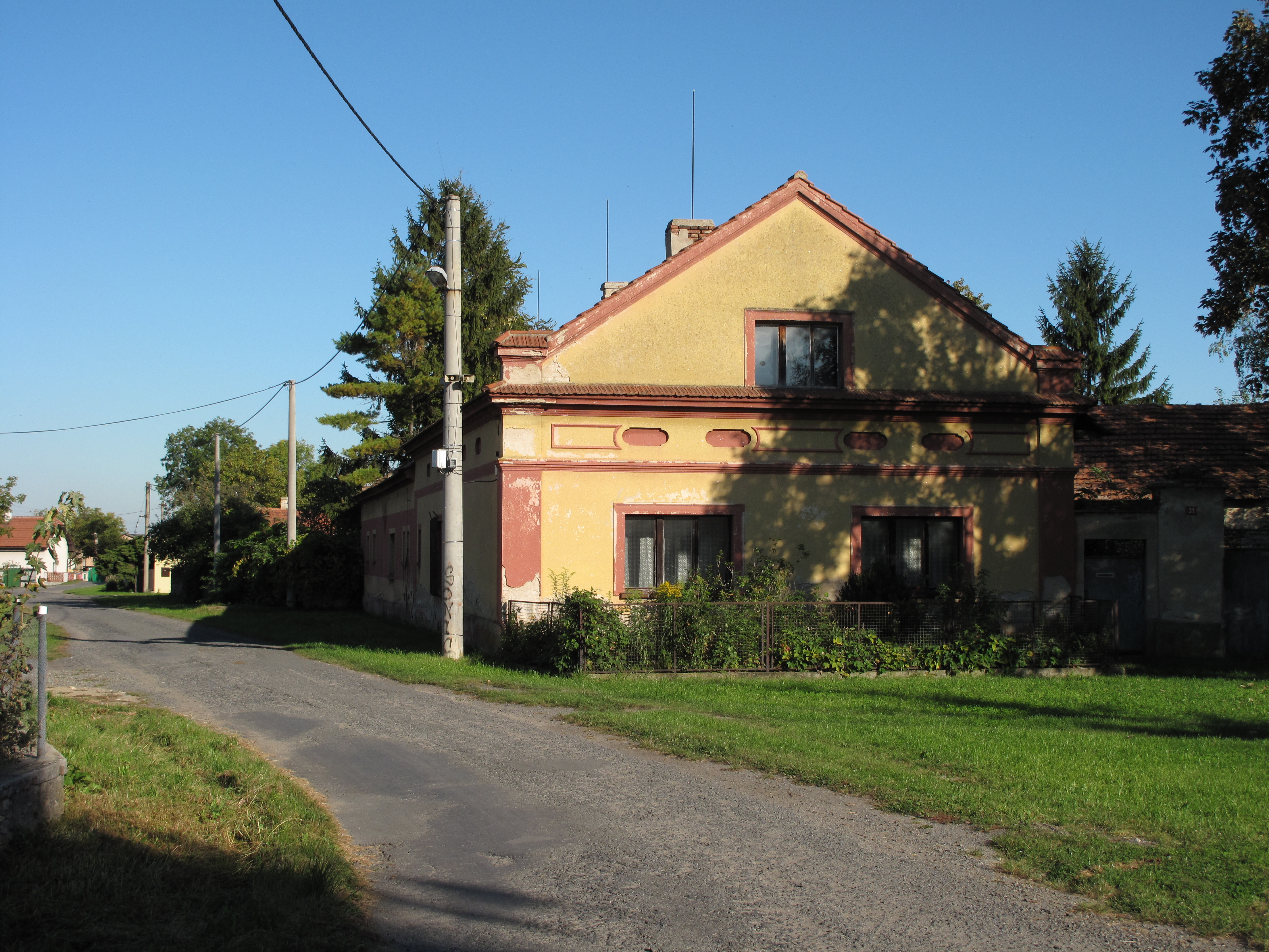 House facade in Korycany village, Mělník District, Czech Republic.